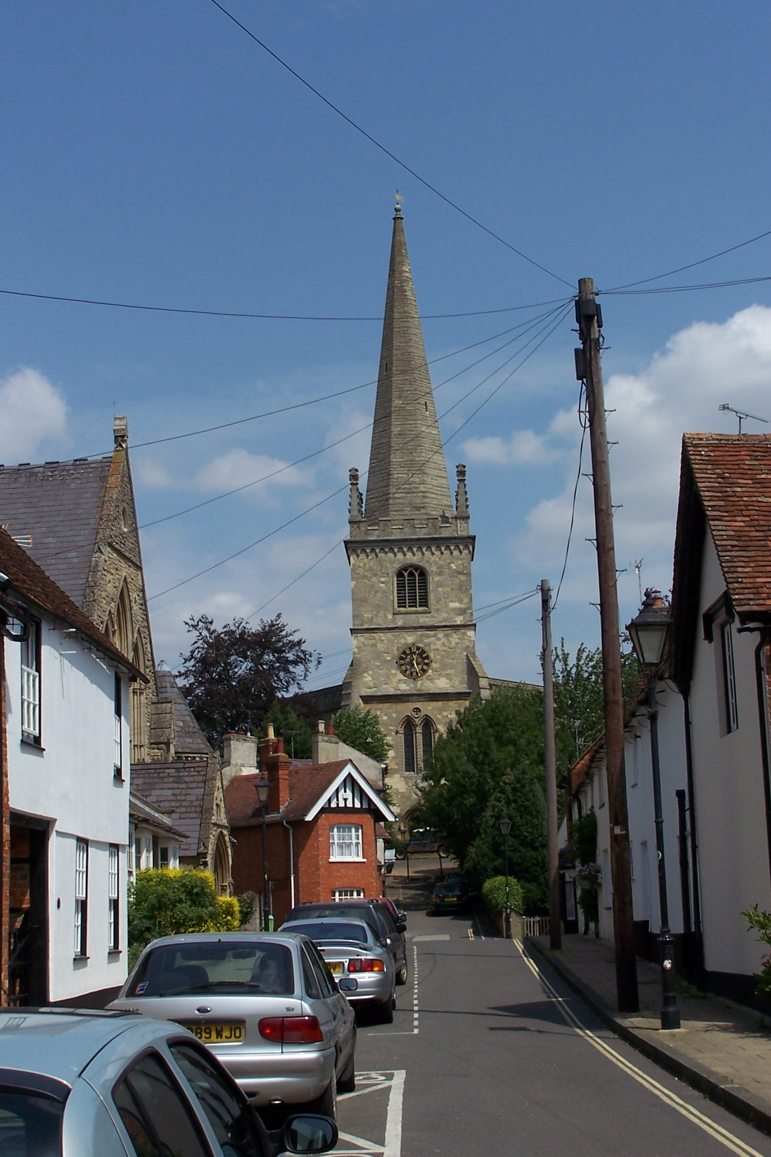 St Peter and Paul's parish church in Buckingham. Consecrated 1781.